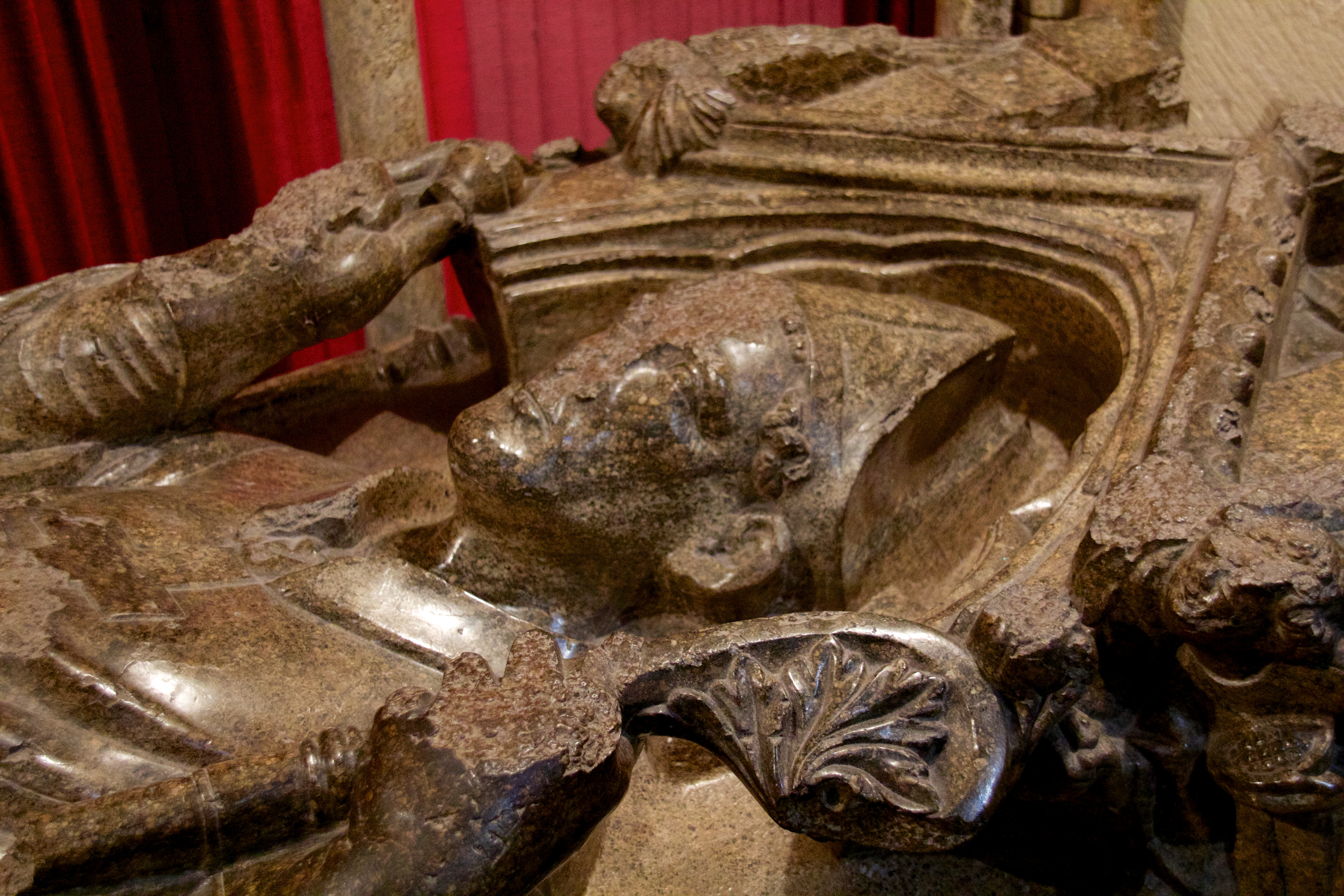 Salisbury Cathedral. Giles de Bridport. Bishop 1257-1262. During his episcopate the Cathedral was consecrated on 30 September 1258 by Boniface, Archbishop of Canterbury. He founded the College of St Nicholas de Vaux. This is one of the finest 13th Century tombs in Britain.